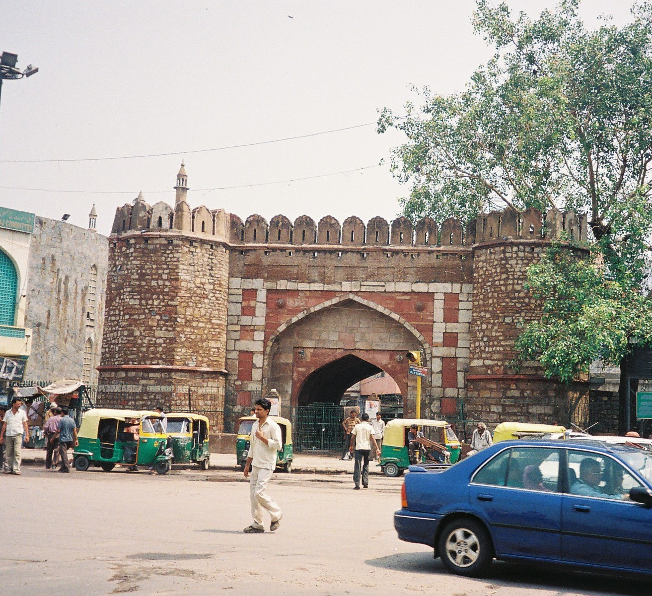 Another view of Turkman Gate